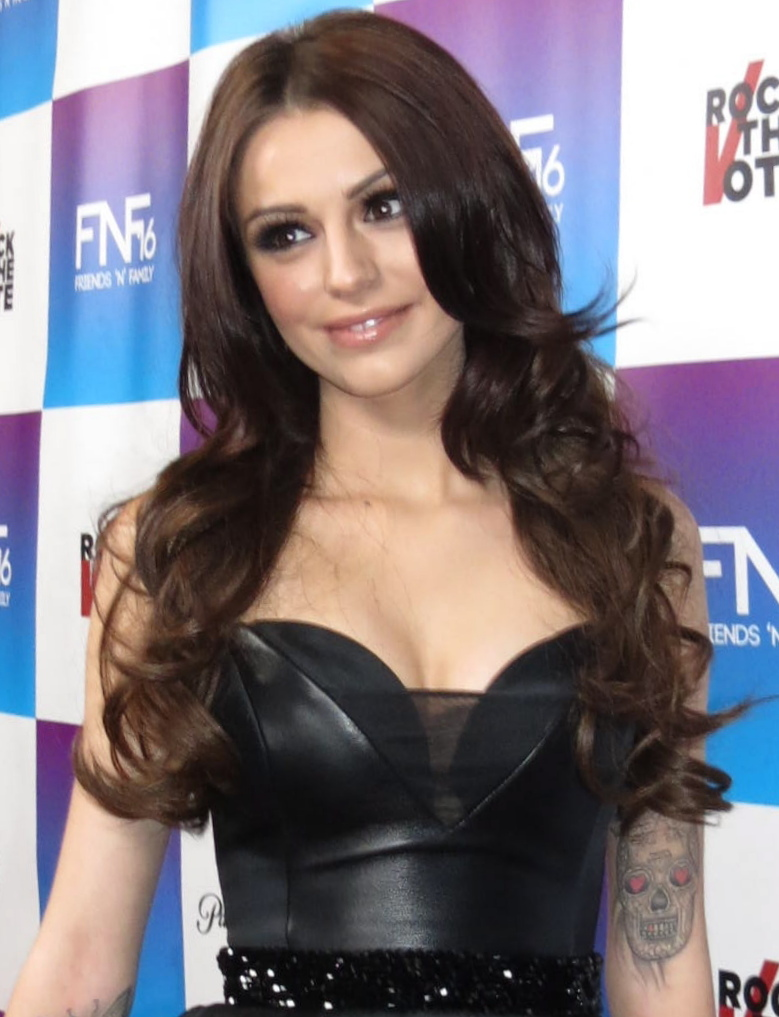 Cher Lloyd at the Paramount's Friends 'N' Family Grammys Party 2013.